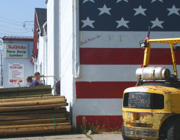 A worker enters a lumberyard in New Dorp © 2004 Matthew Trump